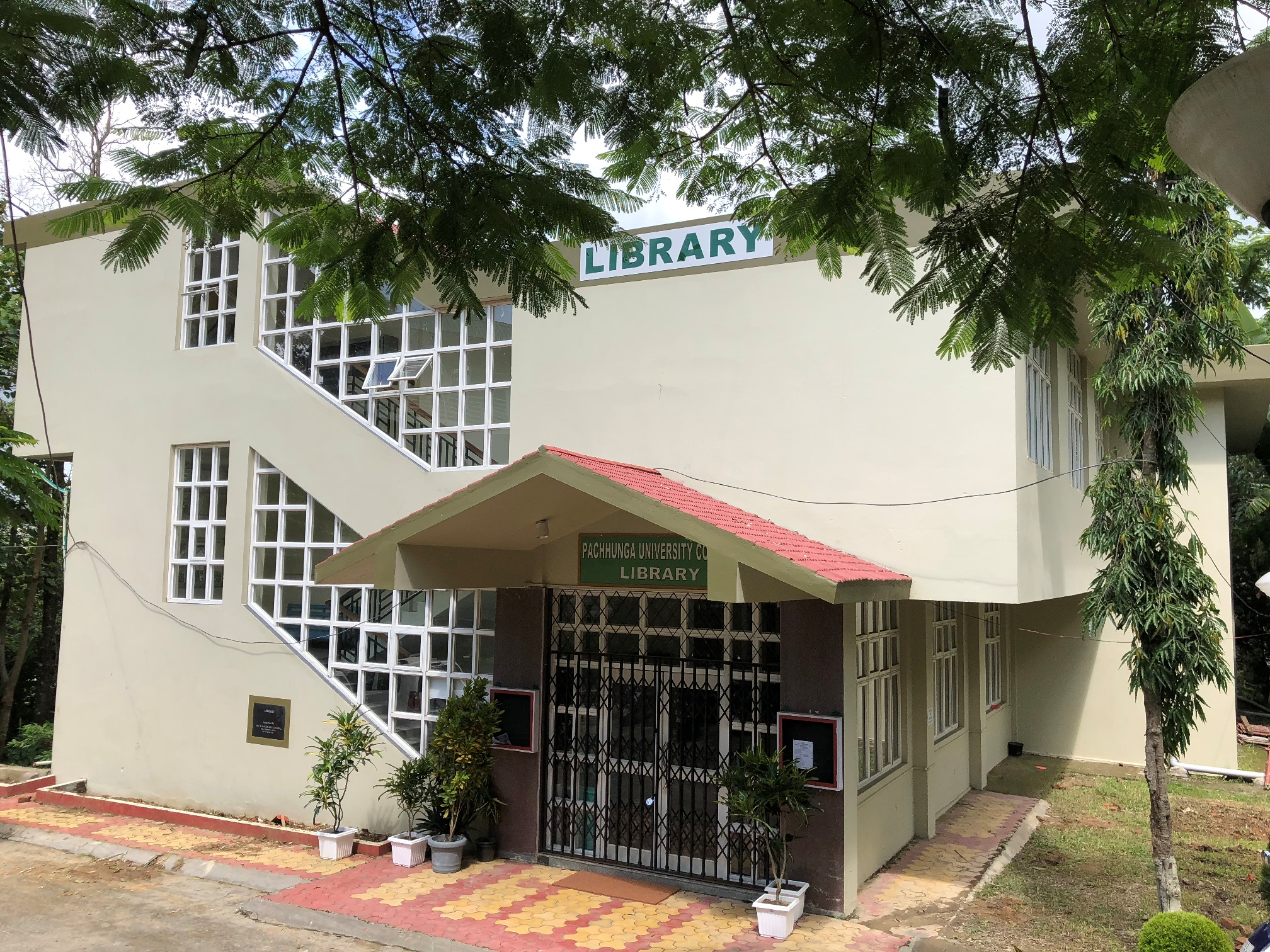 Pachhunga University College Library. Photo taken on 17/08/2018.